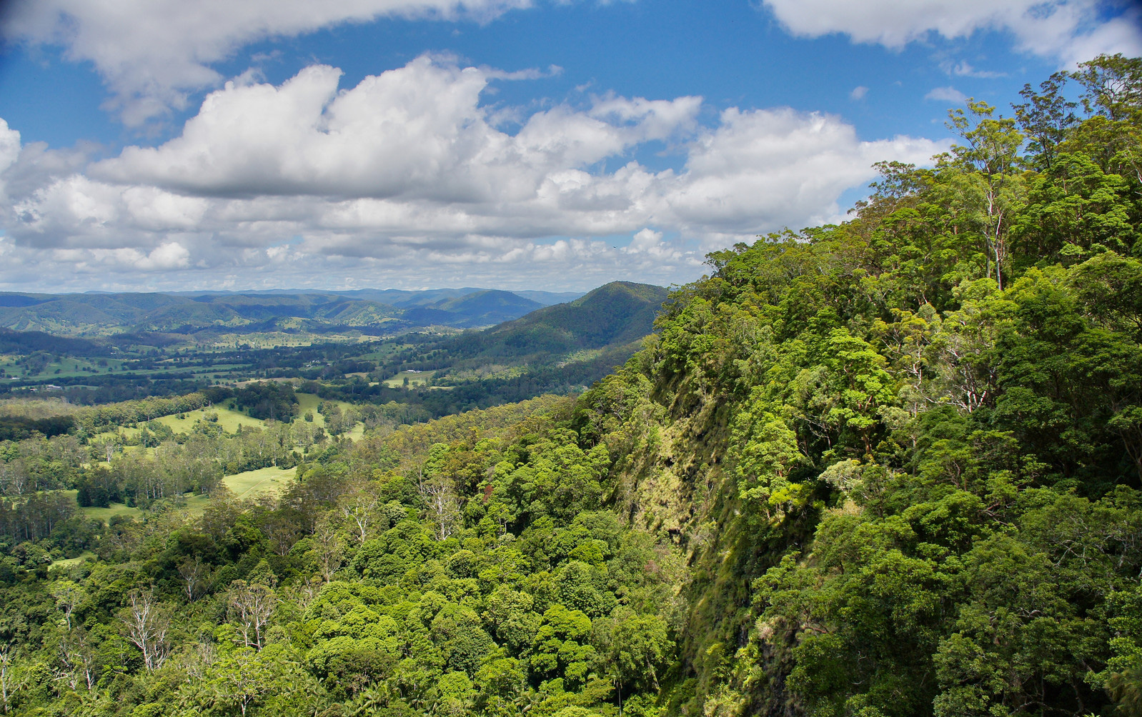 View to Obi Obi valley. See other image for the waterfall view. Mapleton Falls National park. Australia